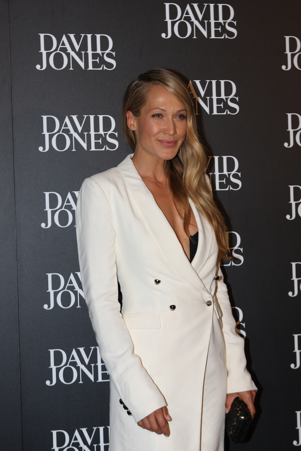 David Jones Autumn Winter Launch With Miranda Kerr At David Jones Sydney